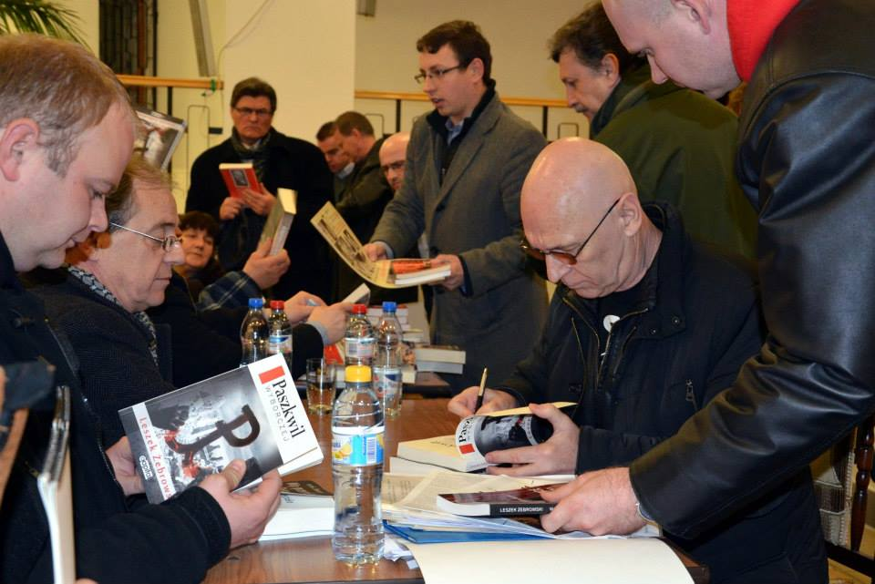 Treffen mit Leszek Żebrowski